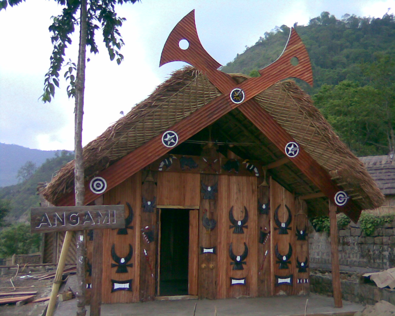 A replica of an Angami Naga dwelling at the Naga Heritage Village, Kohima, Nagaland.